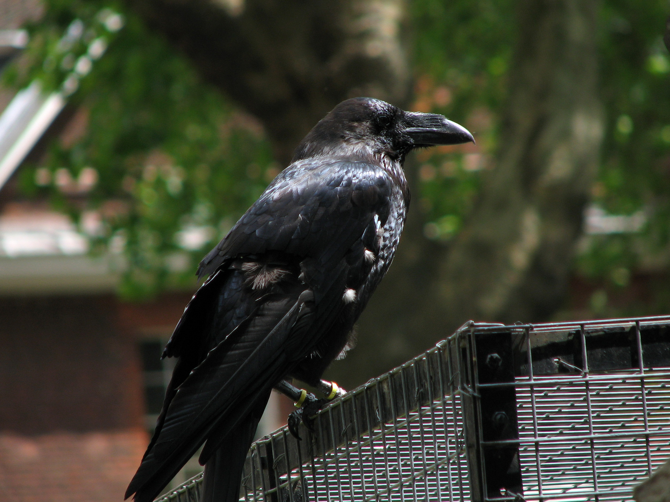 A raven perched on the raven cage at the Tower of London.